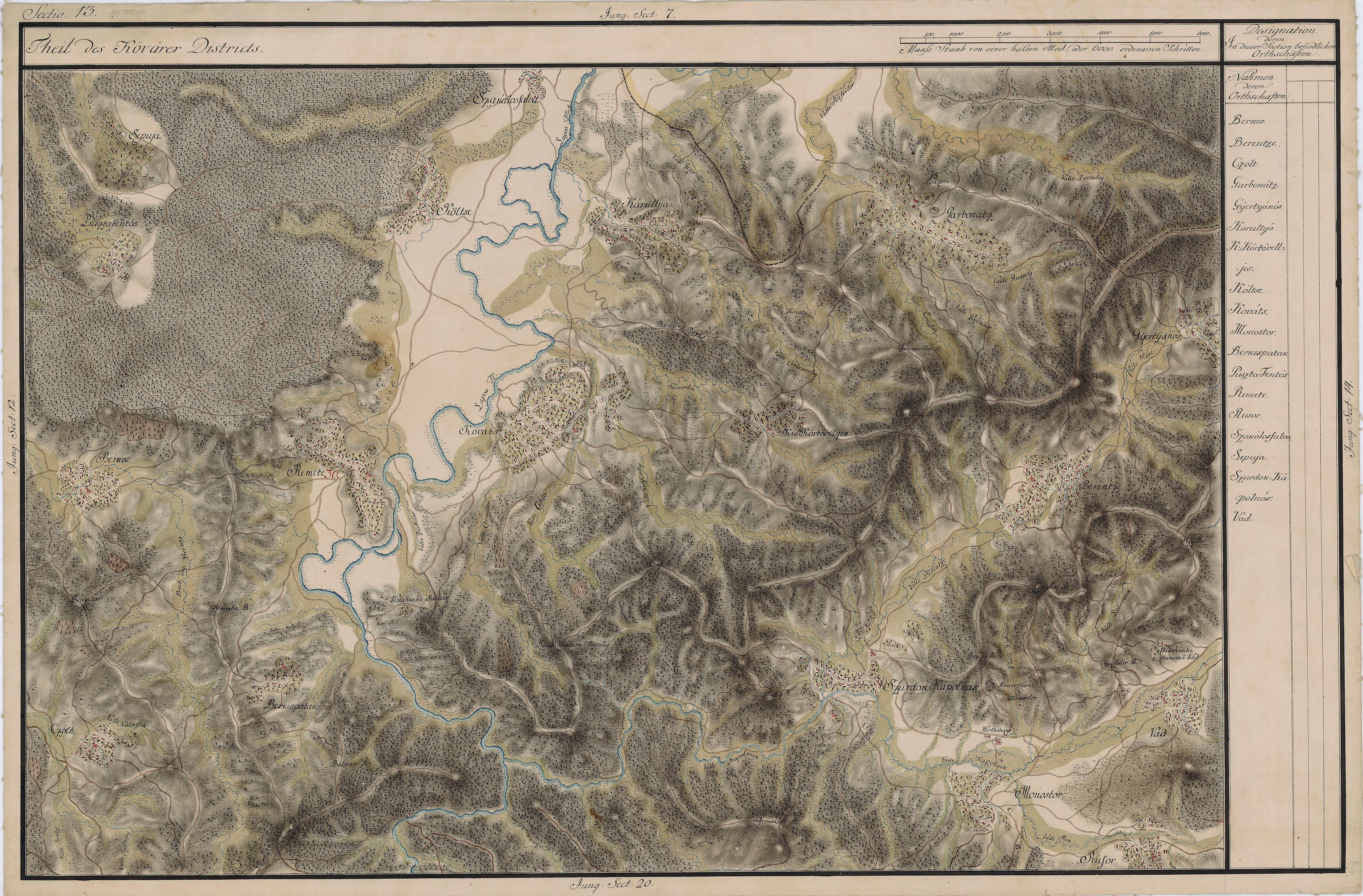 Grand Duchy of Transylvania, 1769-1773. Josephinische Landaufnahme pg.013